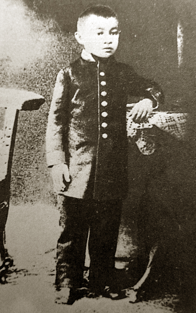 Chokan Valikhanov on entrance to Omsk Cadet School 1847